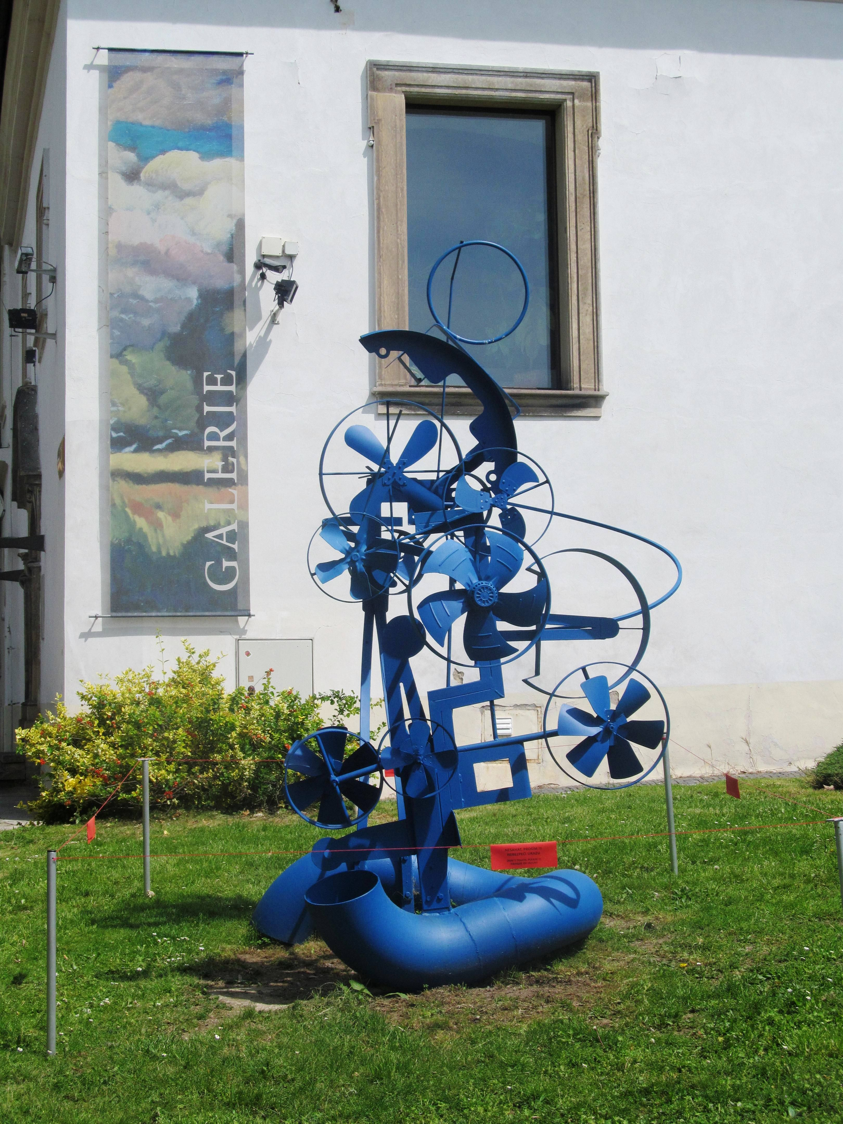 Statue by Václav Jíra from 2007 in front of Museum in Roudnice nad Labem